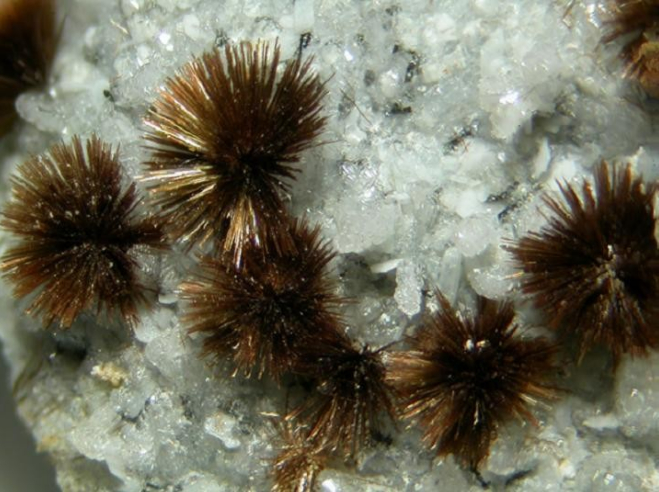 Tuperssuatsiaite Locality: Aris Quarries (Ariskop Quarry; Railway Quarry), Aris, Windhoek, Windhoek District, Khomas Region, Namibia (Locality at ) Field of view 5 mm. Depth of field is achieved with CombineZM. Specimen and photo Leon Hupperichs.